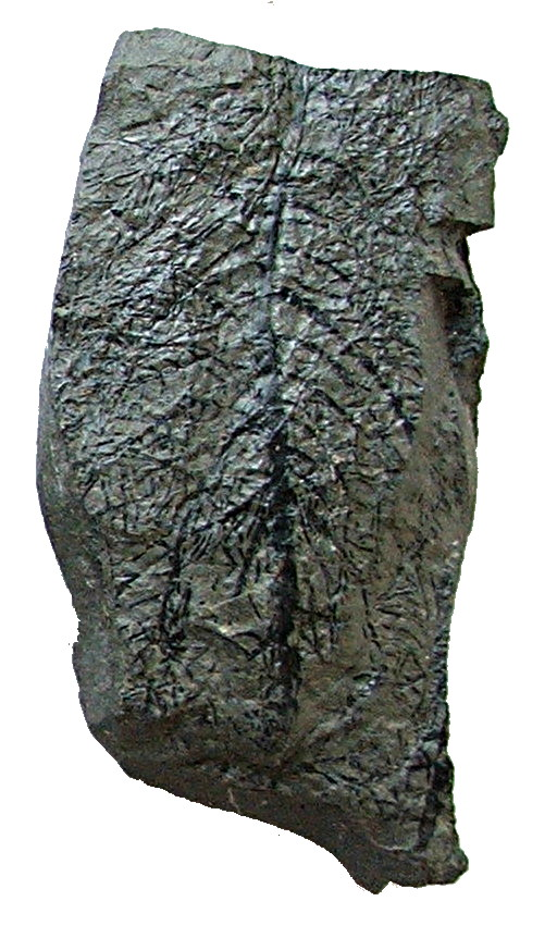 Calamites from the Sedgwick Museum's collection.